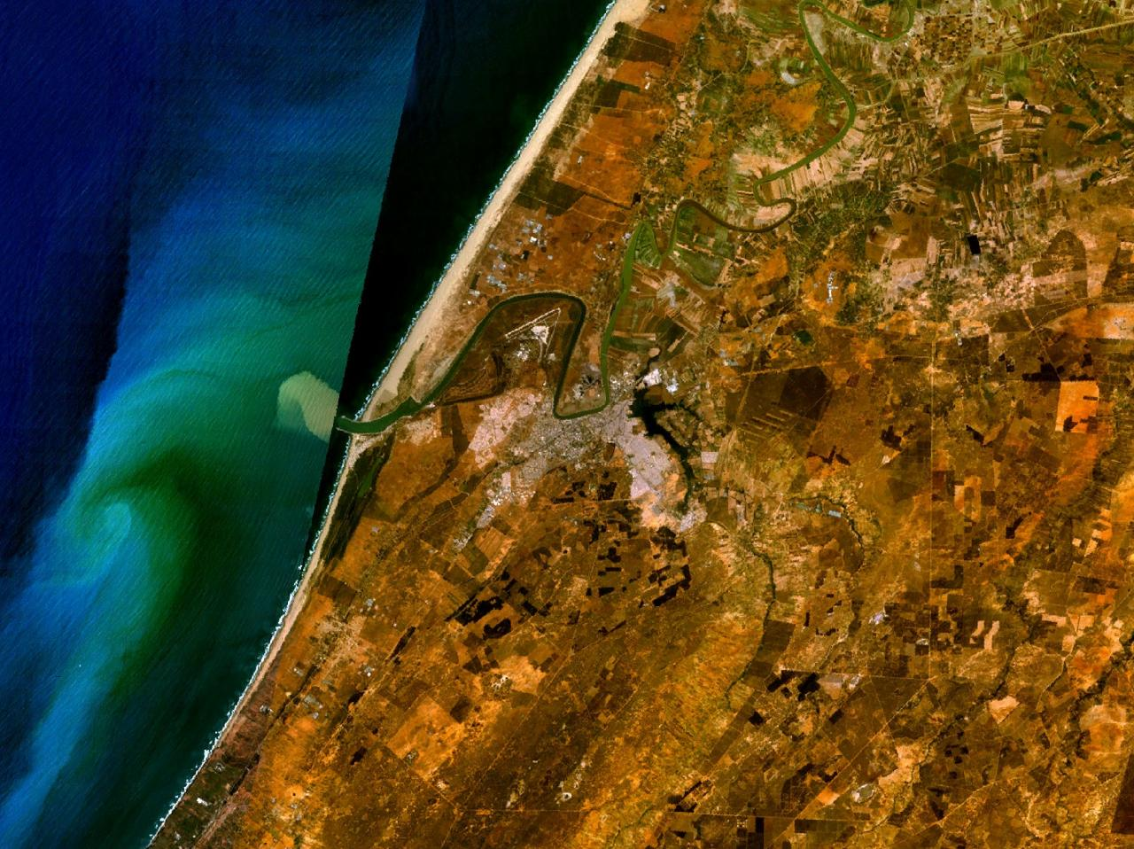 Kenitra, Morocco. Satellite picture.